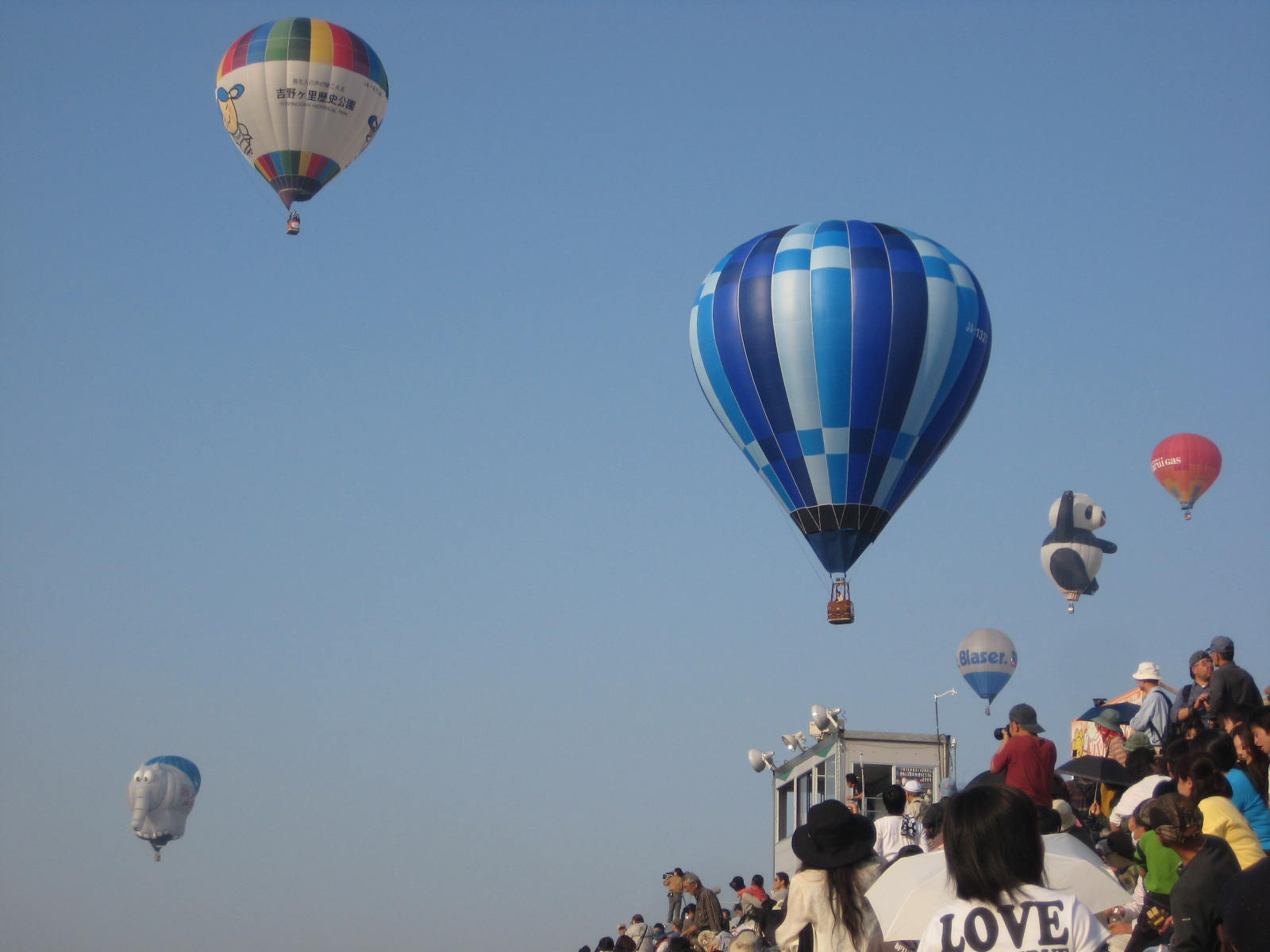 Saga International Balloon Fiesta